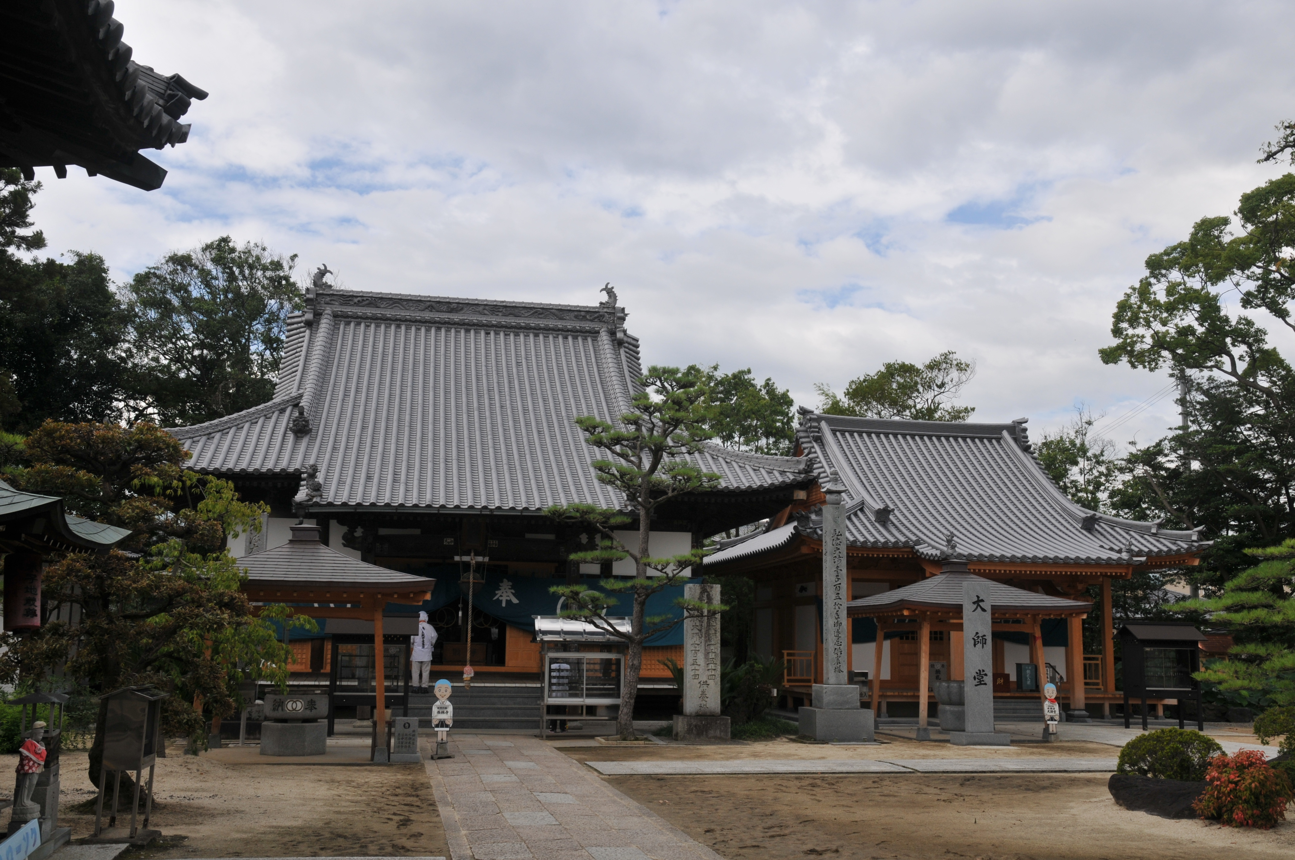 Main temple(left side) and Daishi-dō(right side), Sairin-ji